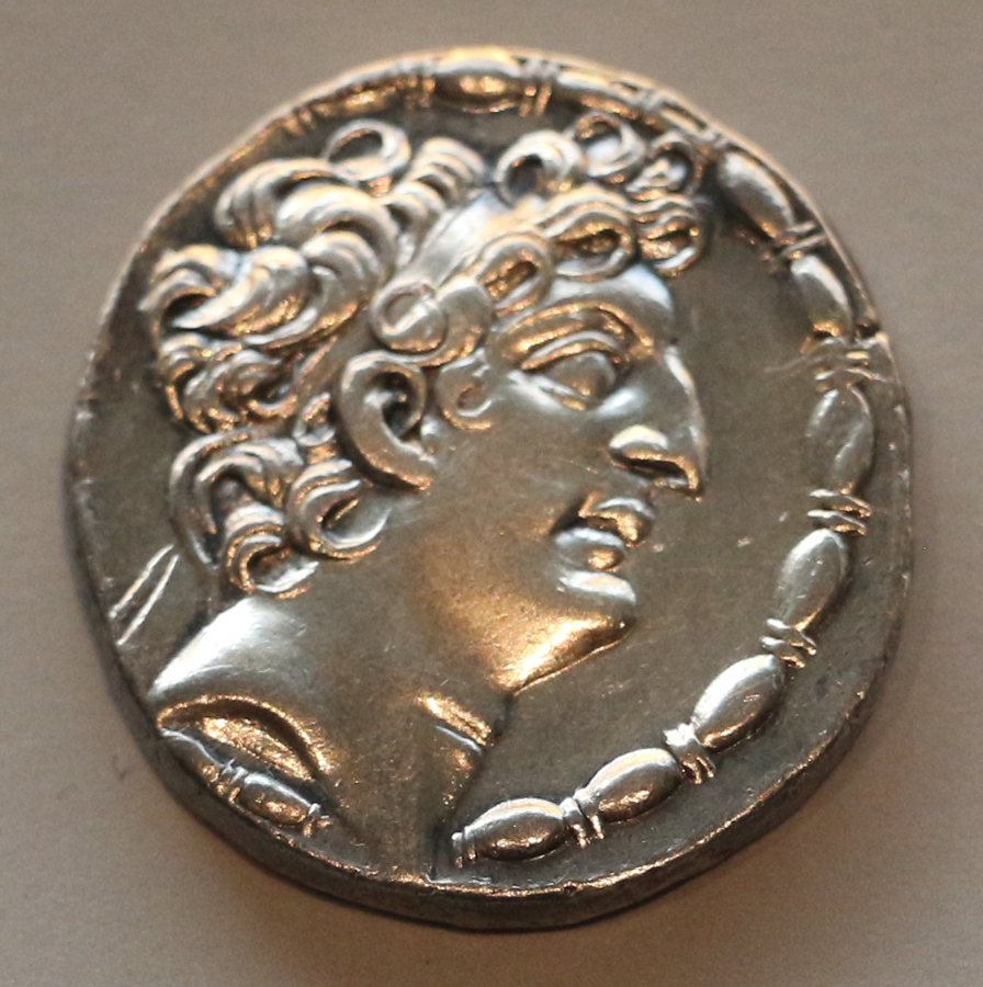 Coins in the Art Institute of Chicago